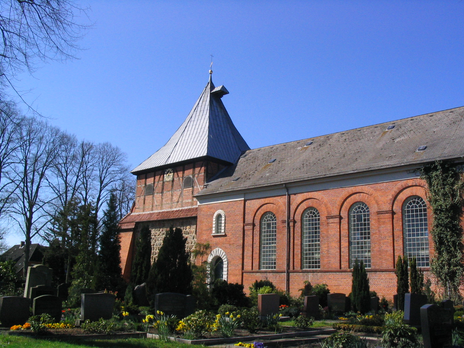 Church of Lütau